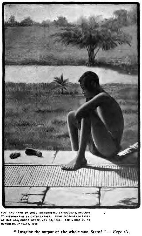 Nsala of Wala, the part of the picture which has been shown in King Leopold's Soliloquy by Mark Twain